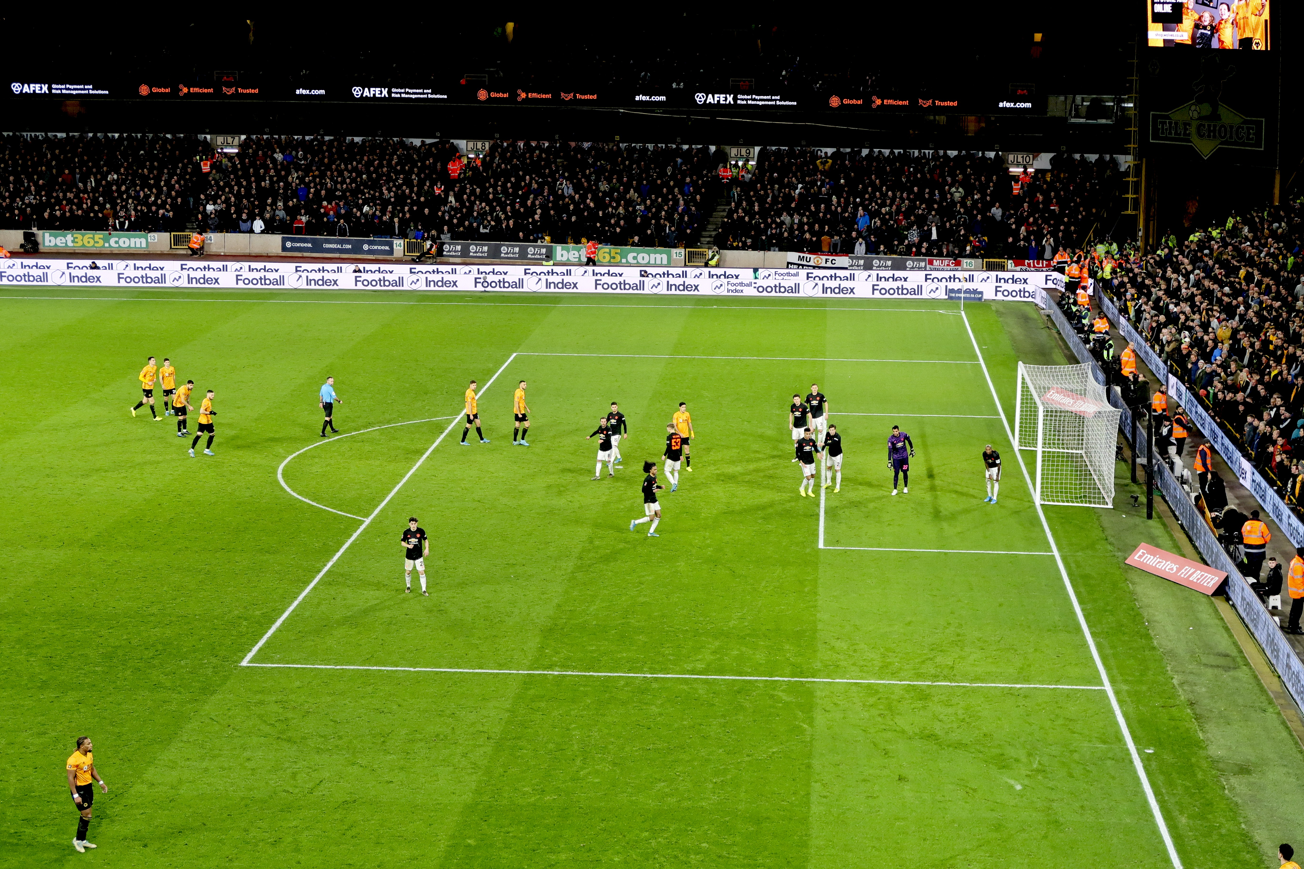 Wolves vs Man Utd, FA Cup Third Round, 4 Jan 2020